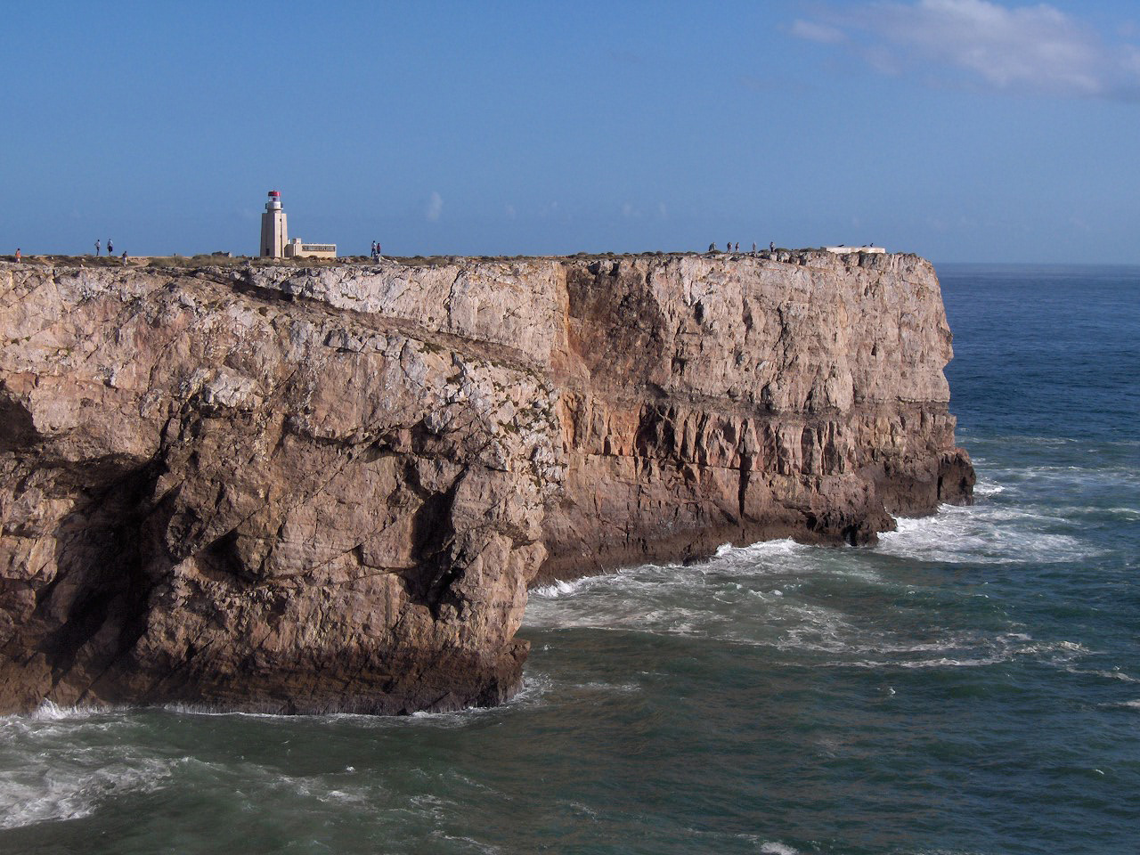 Cape St. Vincent with lighthouse (Cabo de São Vicente), southernmost point of Portugal; Sagres, Portugal.